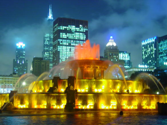 Buckingham fountain taken in 2003.